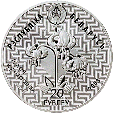 Environmental protection. Commemorative coins "Zakaznіk" Lіpіchanskaya Pushcha ("Reserve." Lipichanskaya Forest ")